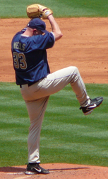 Picture I took on 5-10-07 08:11, 14 May 2007 . . Chrisjnelson . . 153×252 (82,109 bytes)